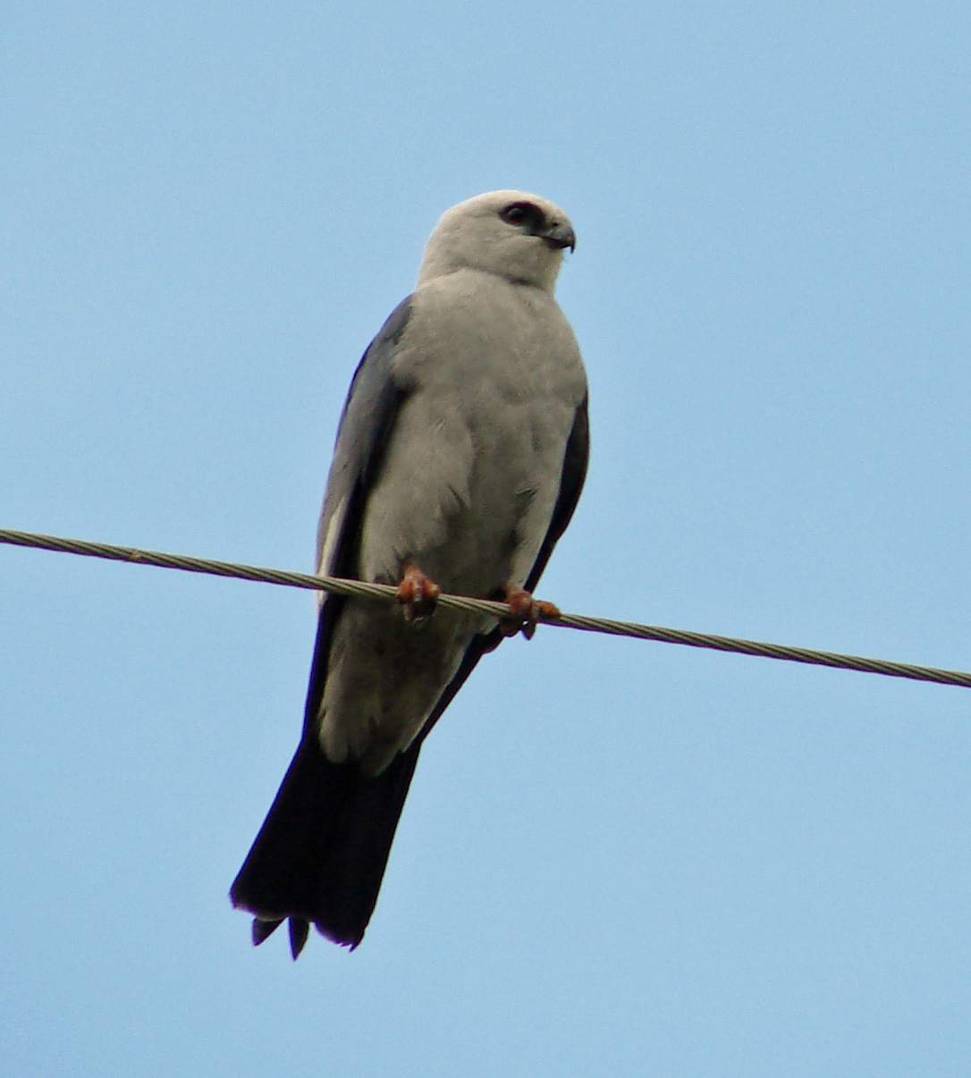 Mississippi Kite, southwest Oklahoma